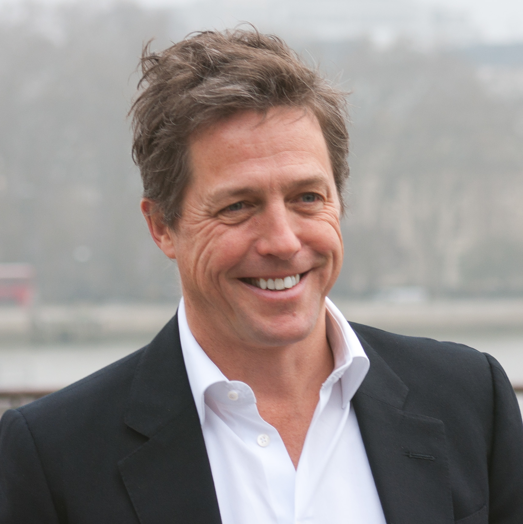 Hugh Grant at a charity fundraiser held in South Bank, London, March 2011.